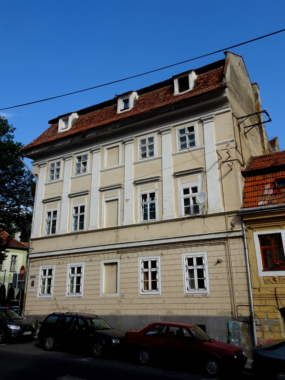 Poarta Schei street in Brasov, house number 26